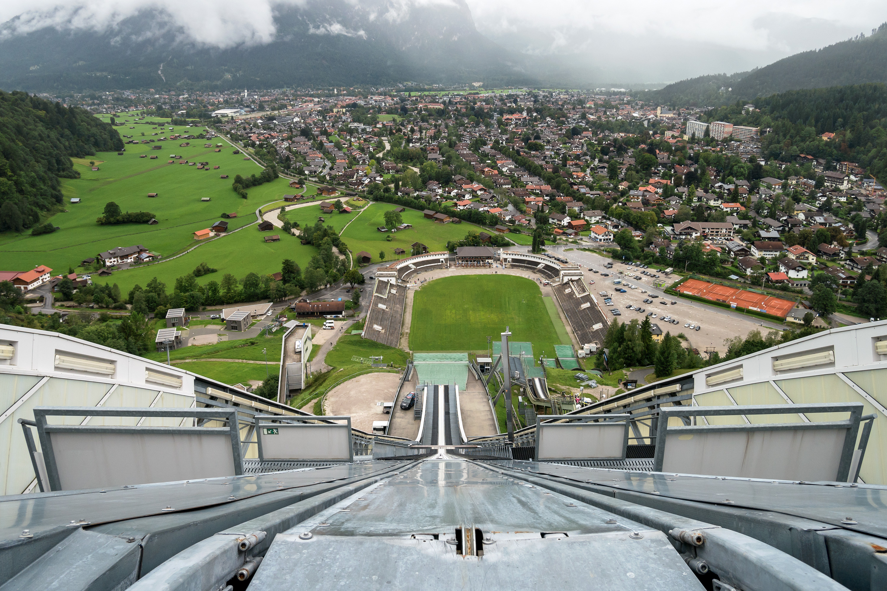 View from the top of the Große Olympiaschanze in Garmisch-Partenkirchen